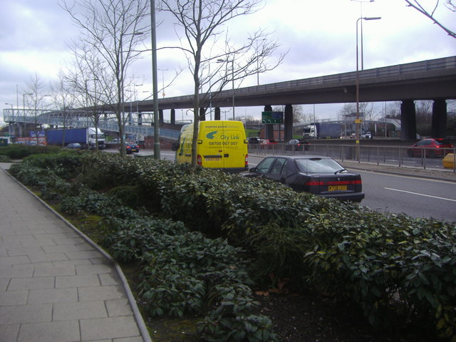 North Circular overpass, Staples Corner The North Circular flies over both roundabouts over the horizon at Staples Corner with the M1 and A5 joining them accessed from the lower sliproad.